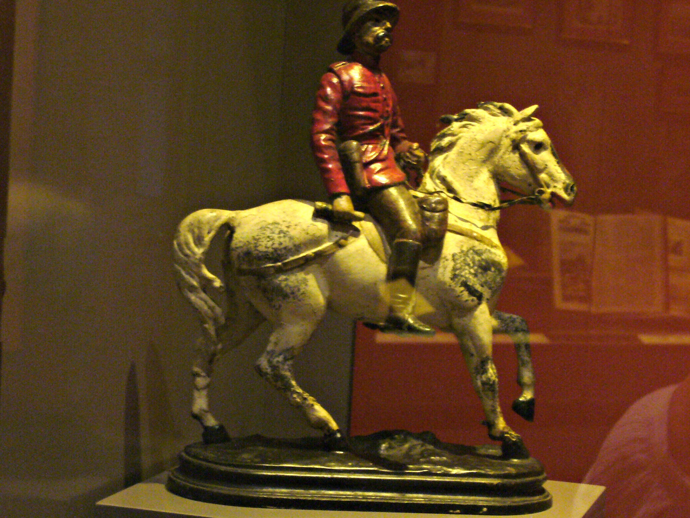 Horatio Herbert Kitchener In September 1878 Horatio Herbert Kitchener, then a yong lieutenant, was transferred from Palestine to Cyprus to head a land survey. An accurate map was required for the efficient administration of the island. The project was abandoned in May 1879 after differences with the High Commissioner and a shortage of funds. Wolseley's succesor, Sir Robert Biddulph however requested Kitchener to resume his work on the triangulation of the island and special surveys. By 1885 he had completed a map in fifteen sheets, which was in use for many years. While on the island Kitchener made a major efforts to establish the Cyprus museum. He was also a supporter of the Cyprus Horse racing Association and won a race on his Arab mare shortly after his arrival. Leventis Municipal Museum, Nicosia, Cyprus